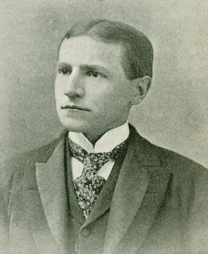 Nevada N. Stranahan, of Fulton, Oswego County, New York. Collector of the Port of New York, appointed by Theodore Roosevelt. Image from American Monthly Review of Reviews, December 1901.